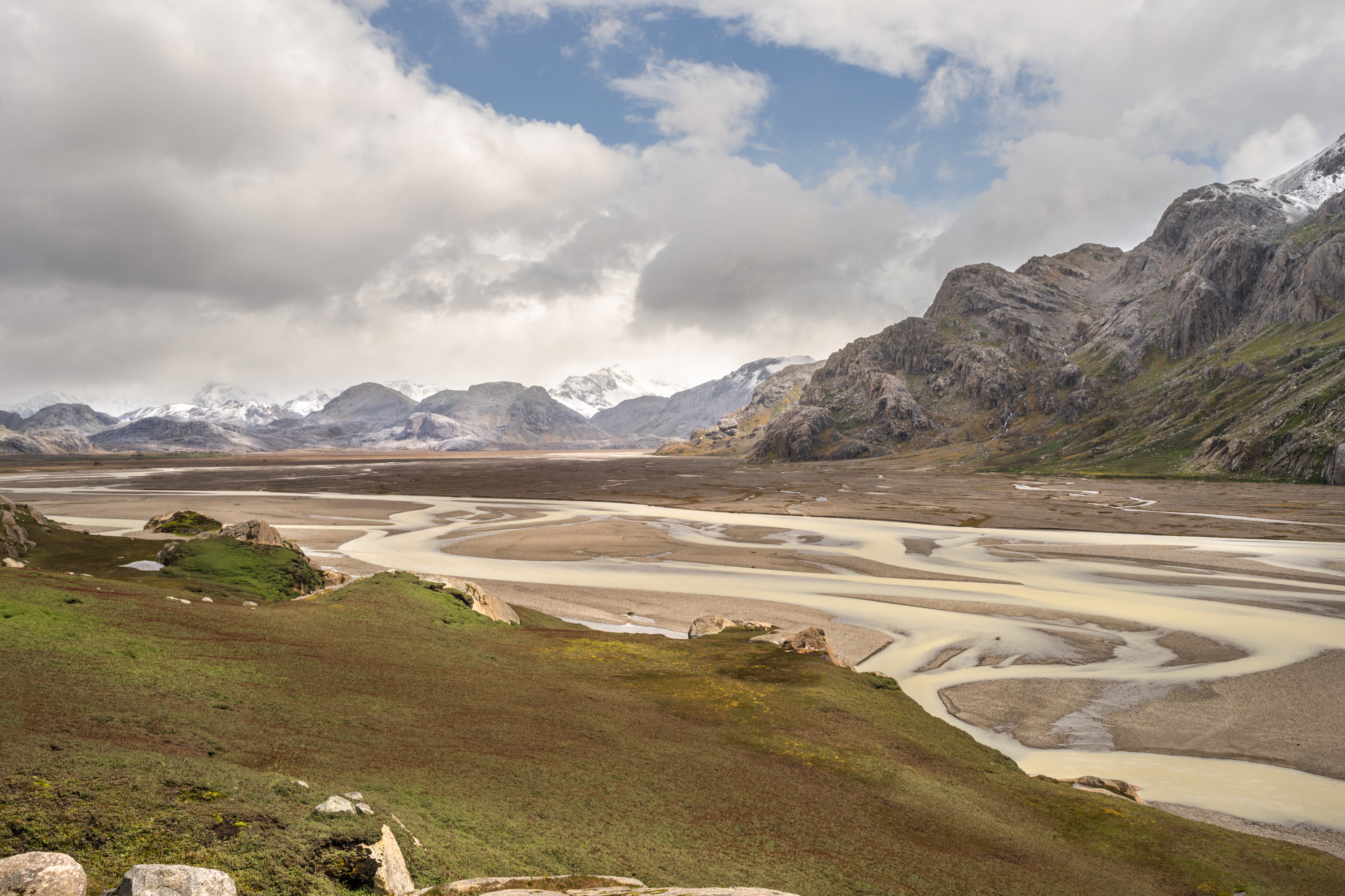 Vallée de Larmor, au sud de la péninsule Rallier du Baty, sud-ouest de la Grande Terre, île principale de l'archipel des Kerguelen